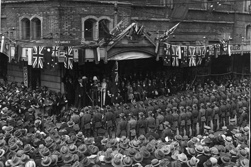 22nd West Australian Governor Sir William Campion at the celebrations for Western Australia's centenary in 1929 for the unveiling of a centenary tablet.